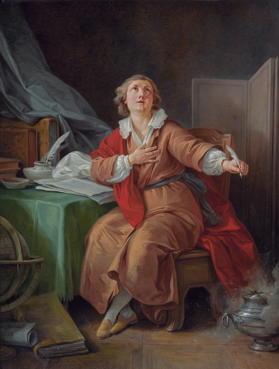 Marie-Joseph Chénier (1764–1811) oil on panel 30.5 x 23.5 cm signed b.l.: J.B.Hüet / .1788 inscribed verso: Marie Joseph Chenier